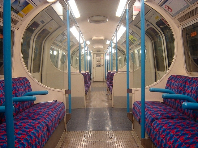 Interior of a refurbished 1967 stock vehicle.